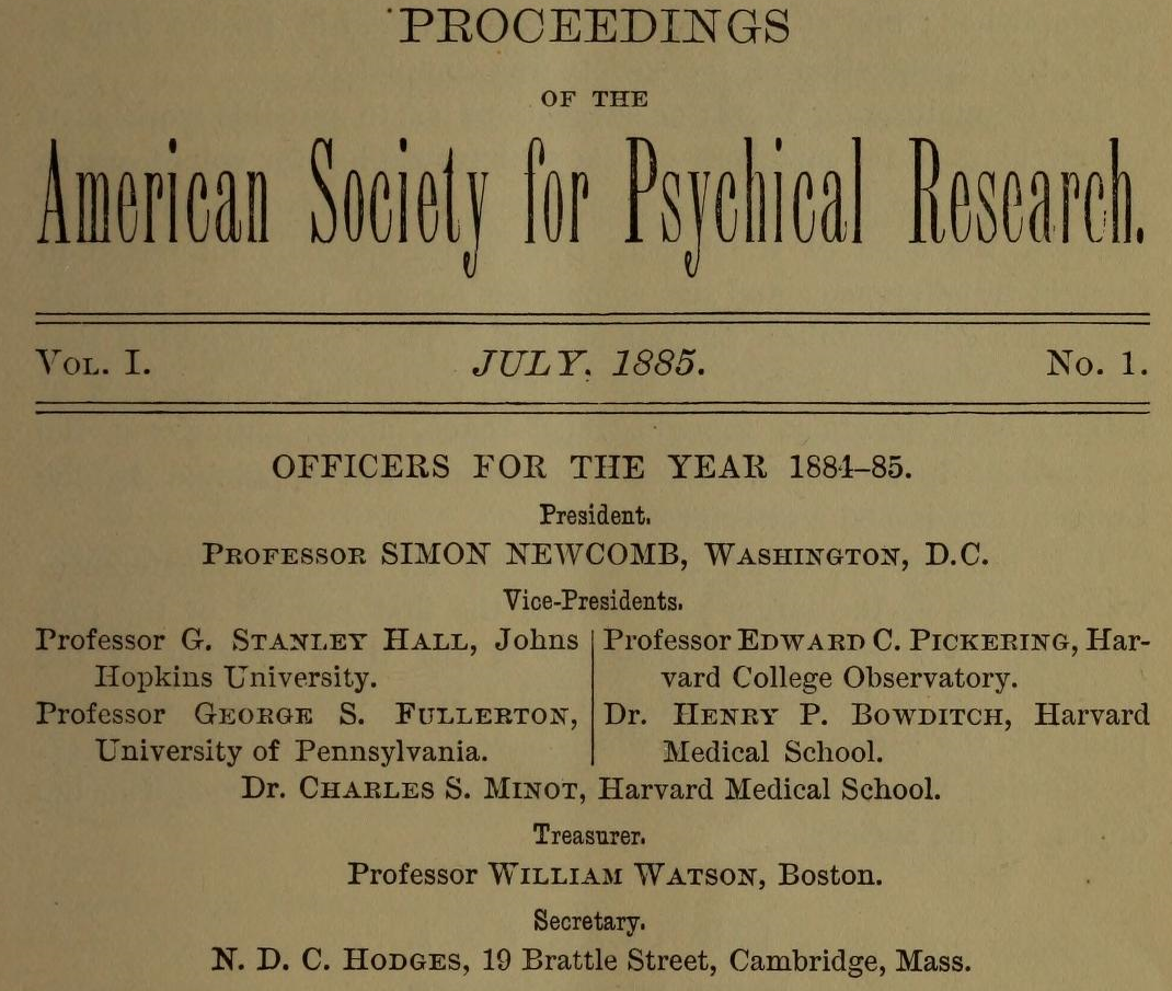 The founders of the American Society for Psychical Research.